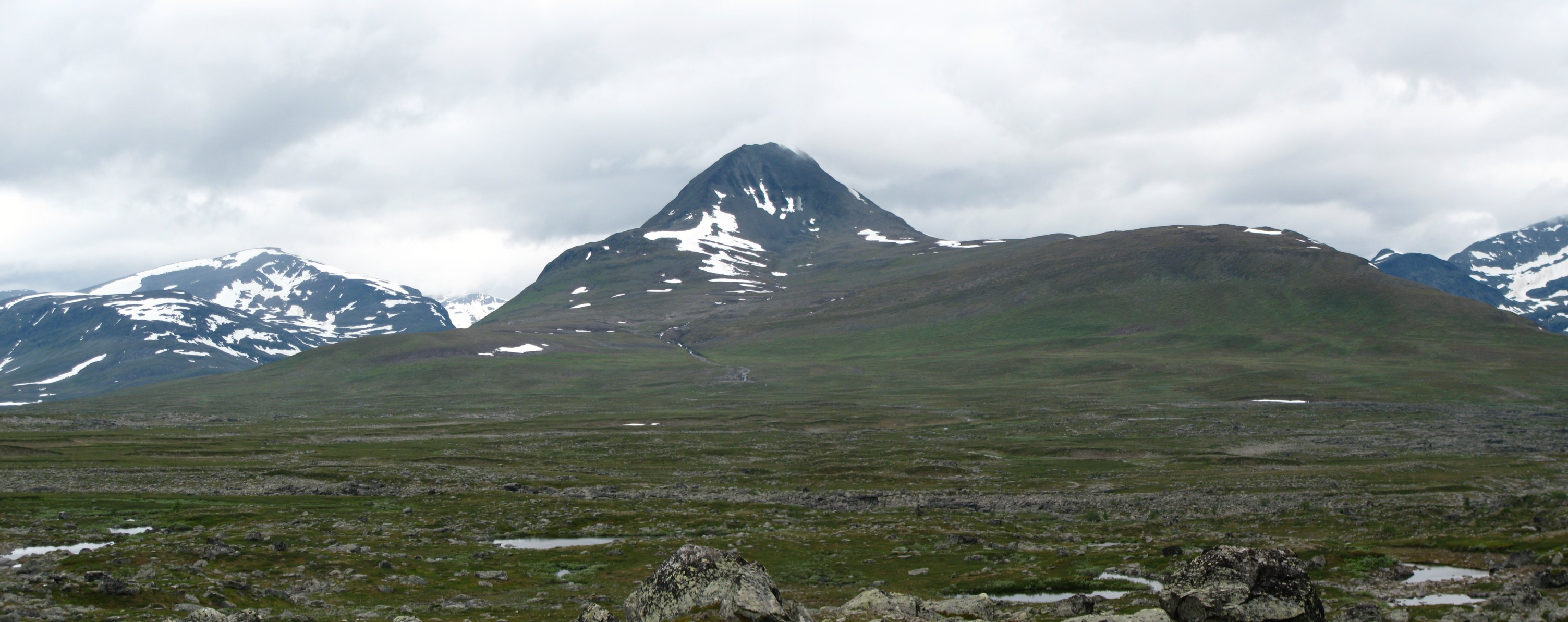 The fell Bárras in Norway, near the tripoint of Norway, Sweden and Finland, seen from ESE, from near the Gappojoki stream.